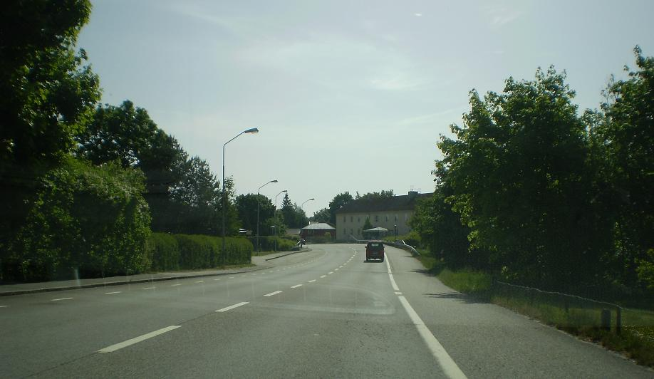 E22 highway through the village of Linderöd, Sweden